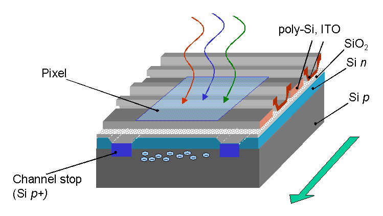 A simplified 3D layout of a CCD sensor, without LODs Shaded area is the pixel size; Green arrow shows charge transfer direction.